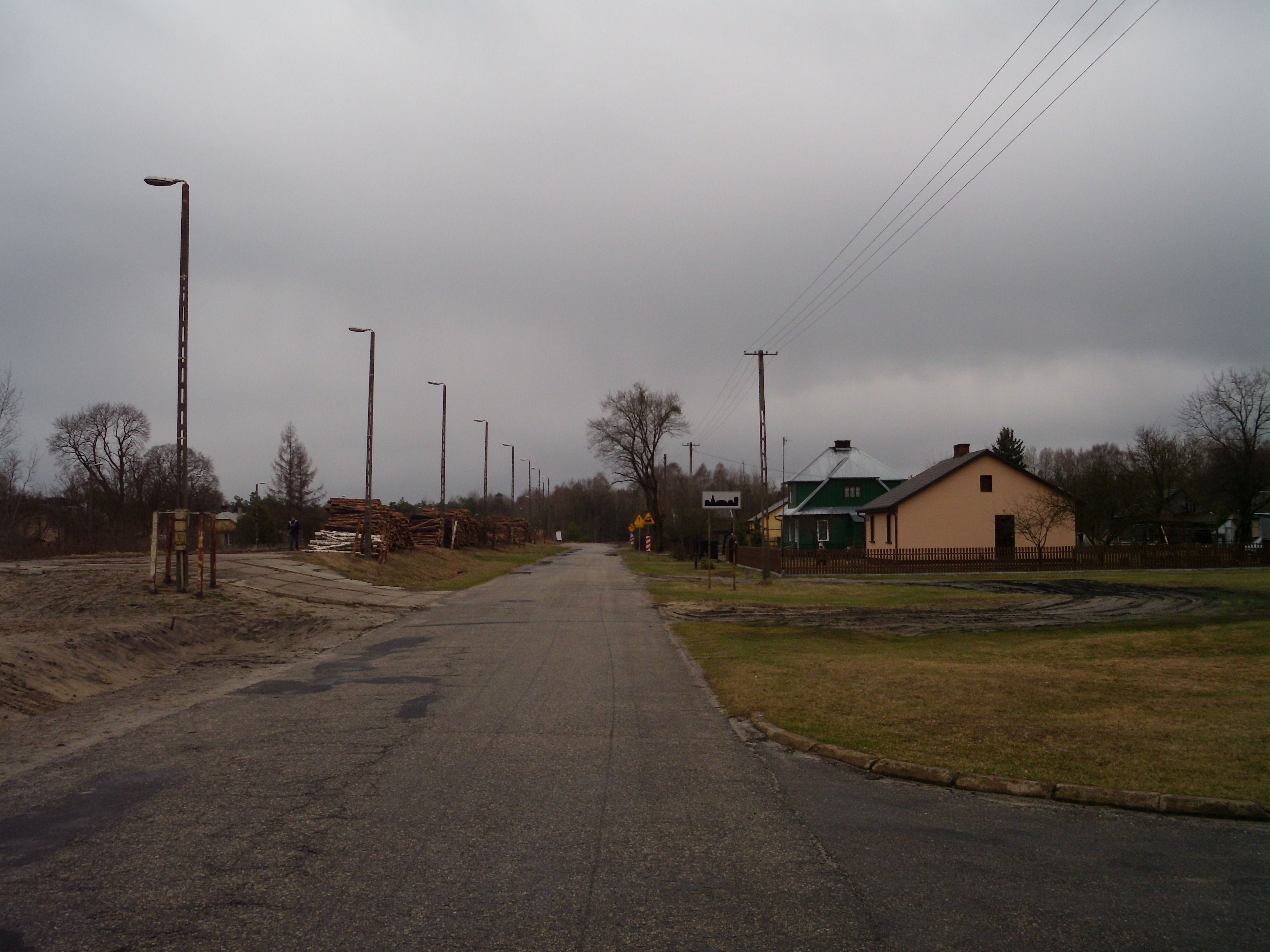 Residential houses and a railroad ramp in "Sobibór Stacja" (train station) colony of Sobibór, Poland, on a route from Chełm to Włodawa.